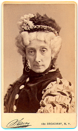 Depicted person: Anne Hartley Gilbert – British actress